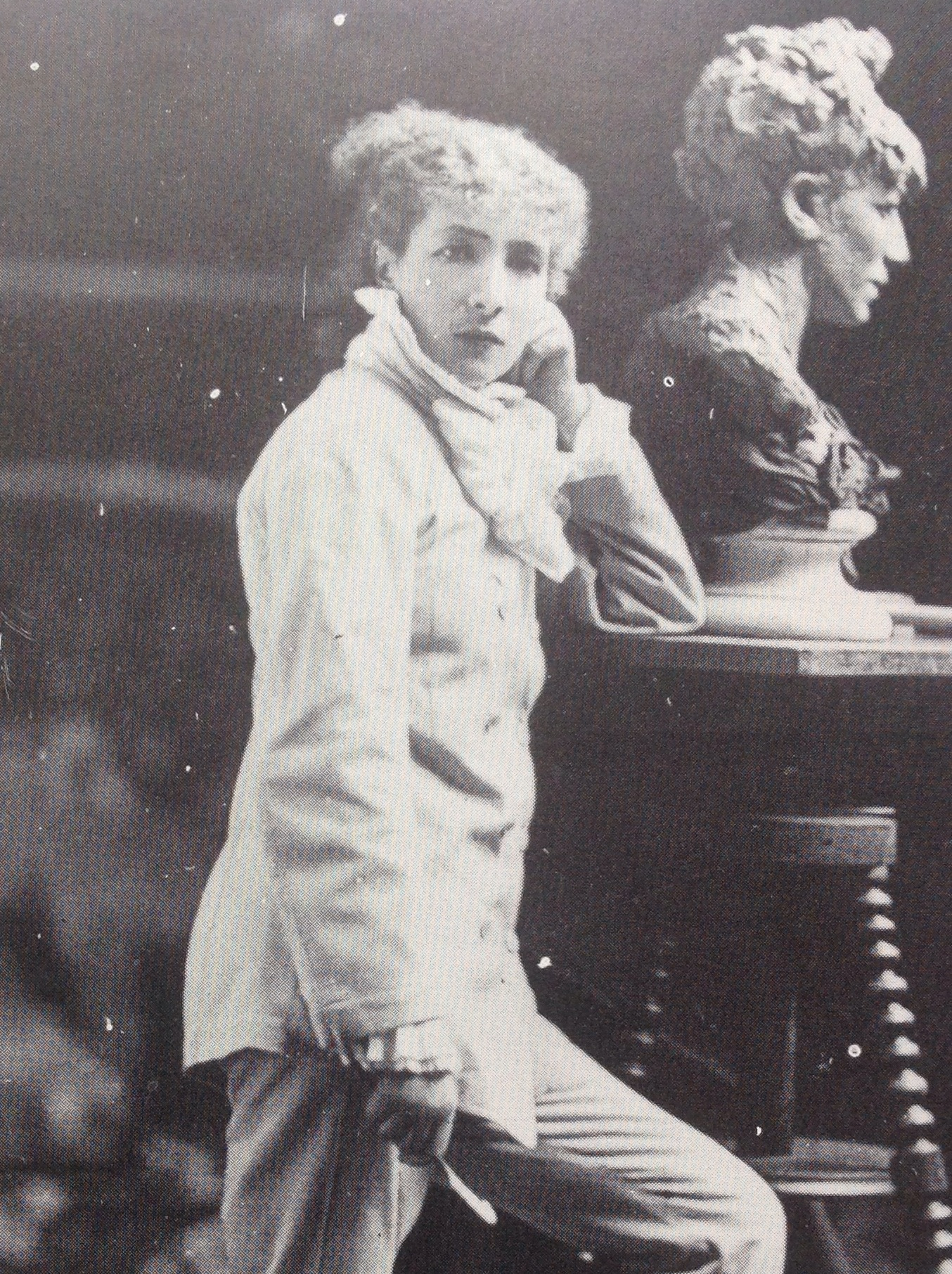 Sarah Bernhardt in her sculpture studio in Paris, about 1878.